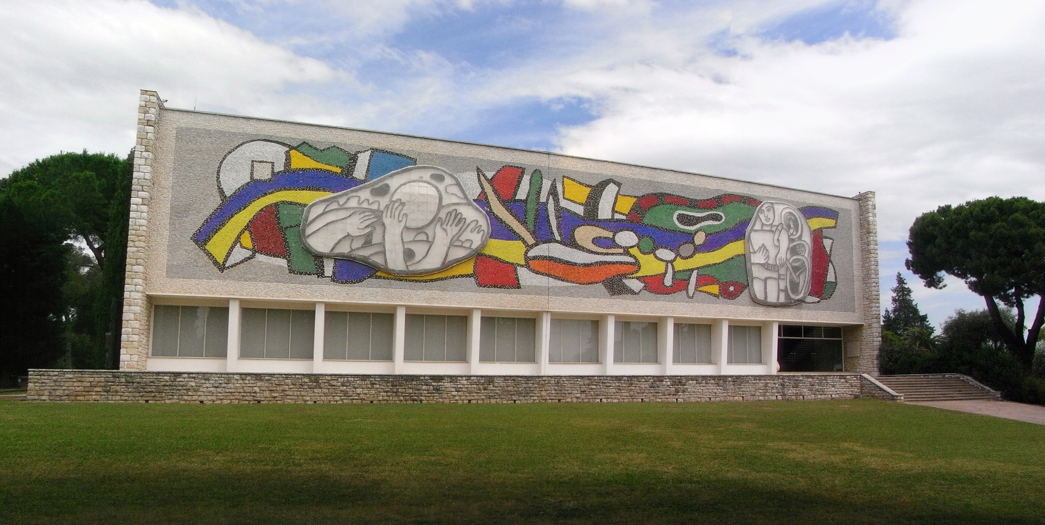 National Fernand Leger Museum in Biot, Alpes-Maritime department, France